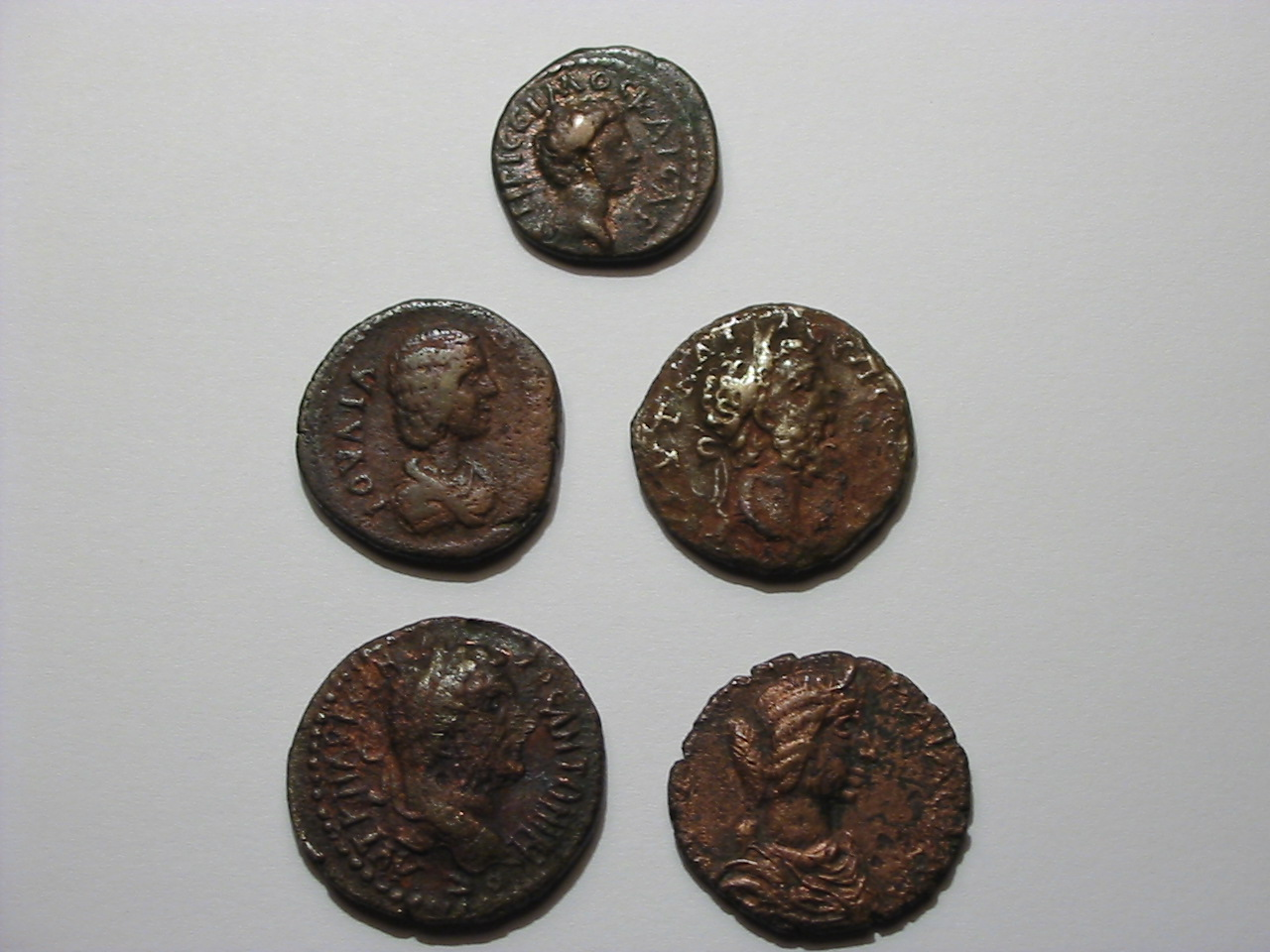 A set of coins minted in Tyras, the Greek polis on the northern coast of the Black Sea, under the reign of (downwards): Marcus Aurelius, Julia Domna, Septimius Severus, Caracalla, Julia Mamaea